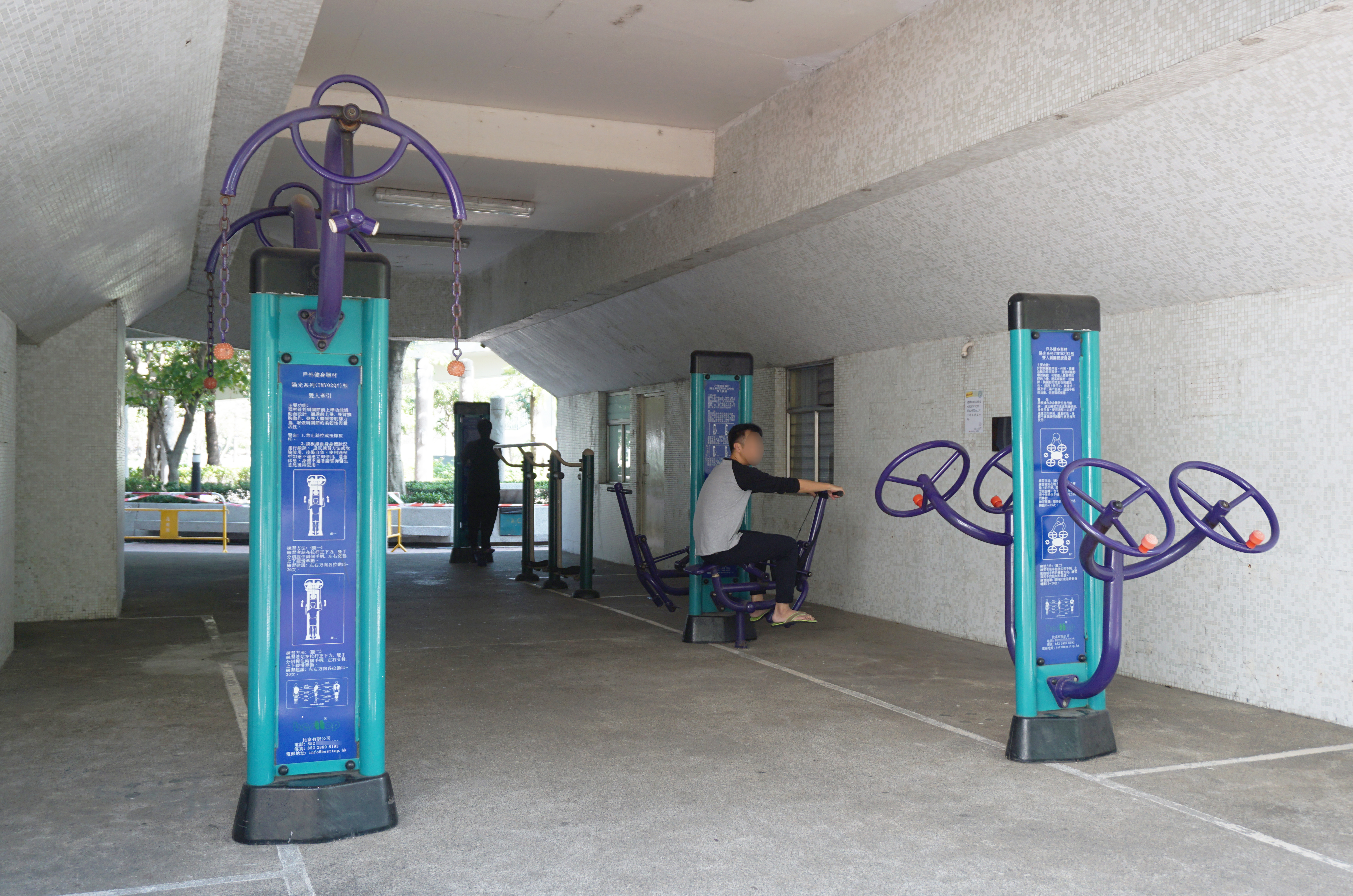 Siu Kwai Court in Tuen Mun, Hong Kong.